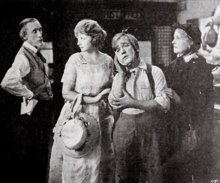 Still from the American comedy drama film Turn to the Right (1922) with Edward Connelly, Alice Terry, Jack Mulhall, and an unidentified actress, on page 170 of the December 24, 1921 Exhibitors Herald.